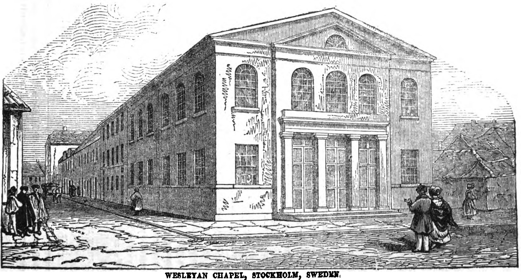 Wesleyan Chapel, Stockholm, Sweden (p.126, 1849)